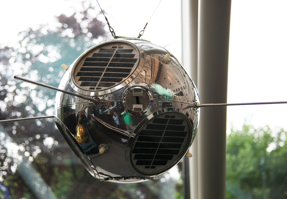 A SOLRAD-GRAB electronic intelligence gathering satellite on display at the Smithsonian Air and Space Museum in Washington, D.C.